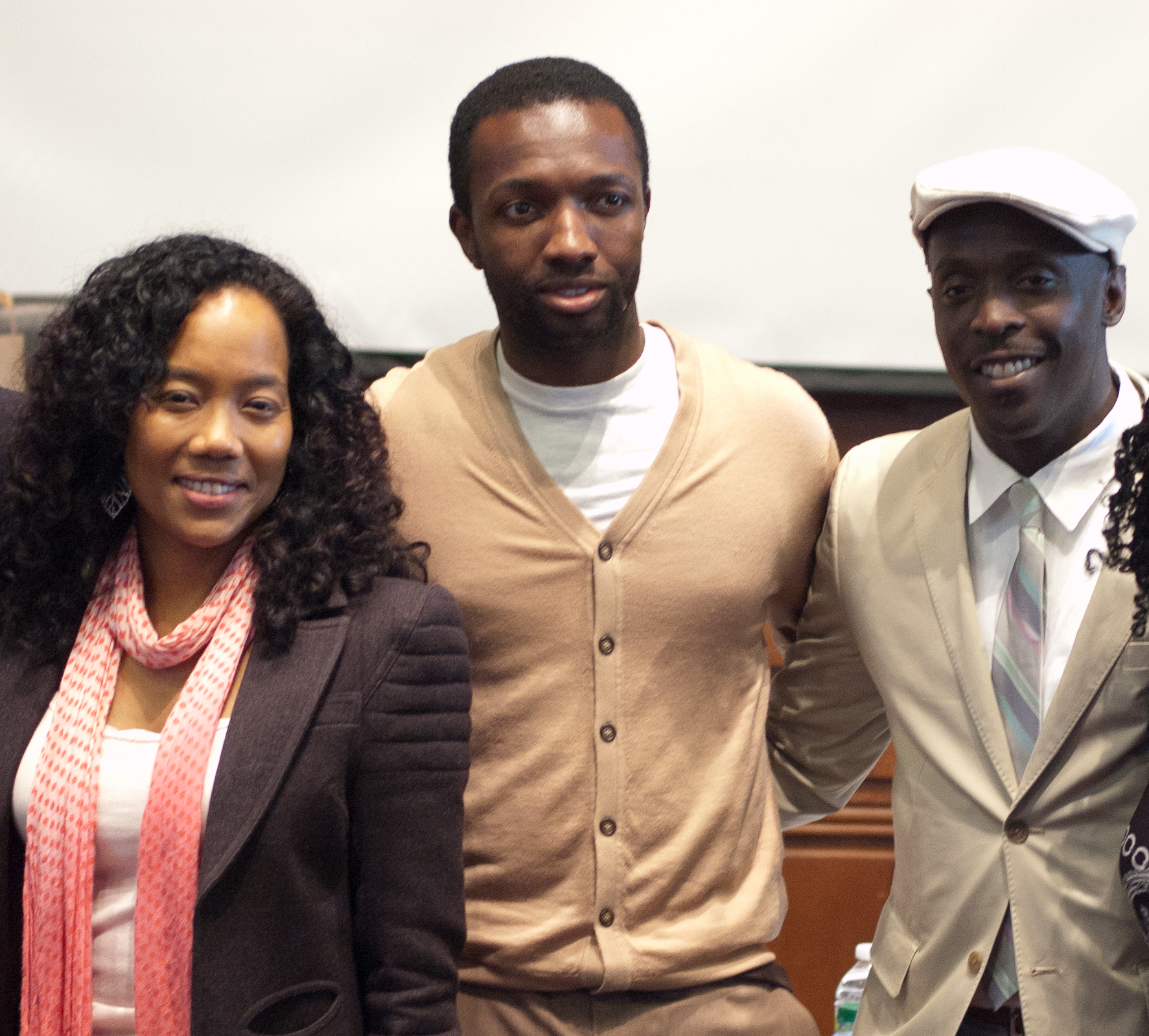 From the April 12, 2010 presentation on "The Wire" at Charles Ogletree's seminar at Harvard University Law School. From left: Sonja Sohn, Jamie Hector, Michael K. Williams.